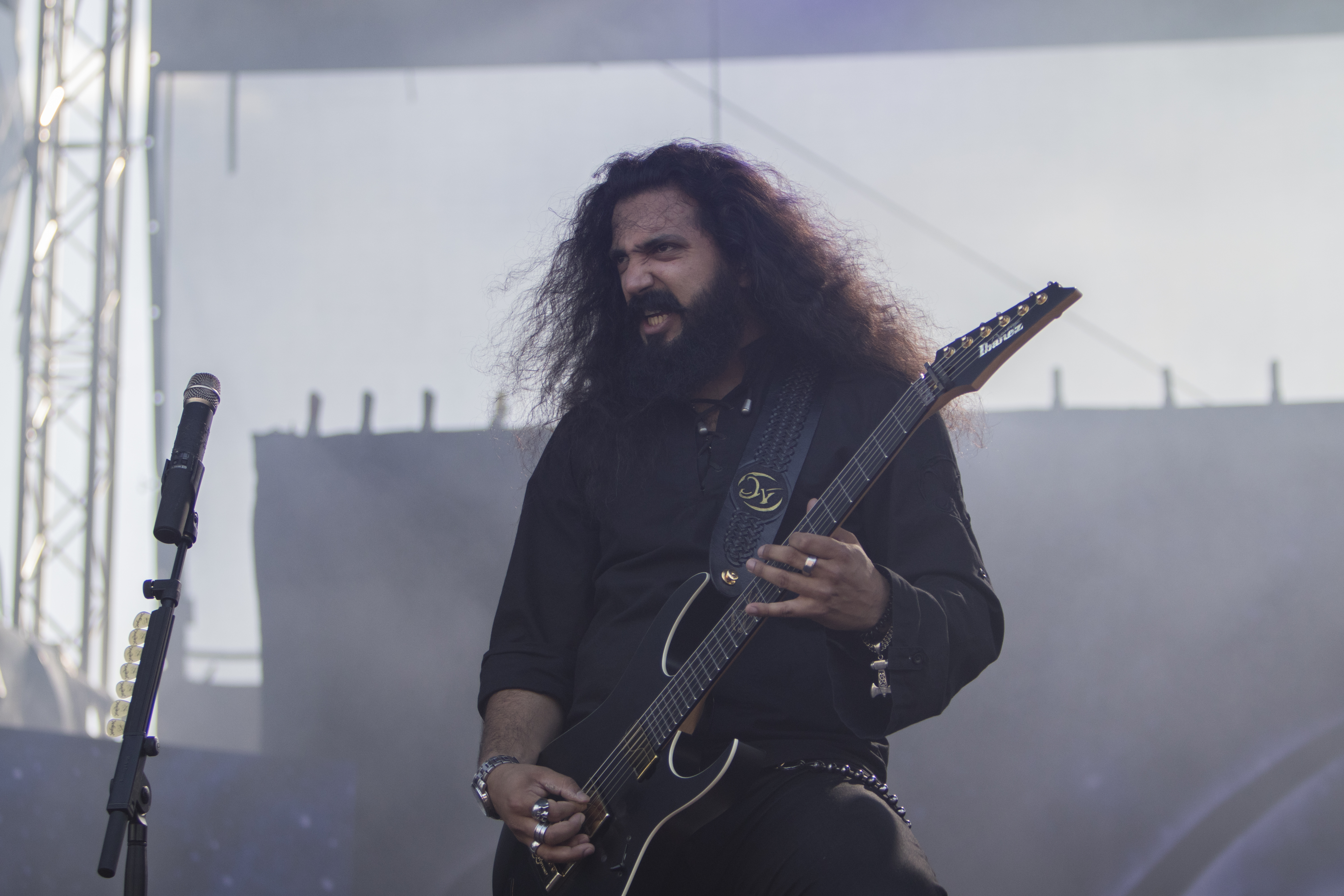 Wintersun at John Smith 2019 festival in Peurunka, Finland